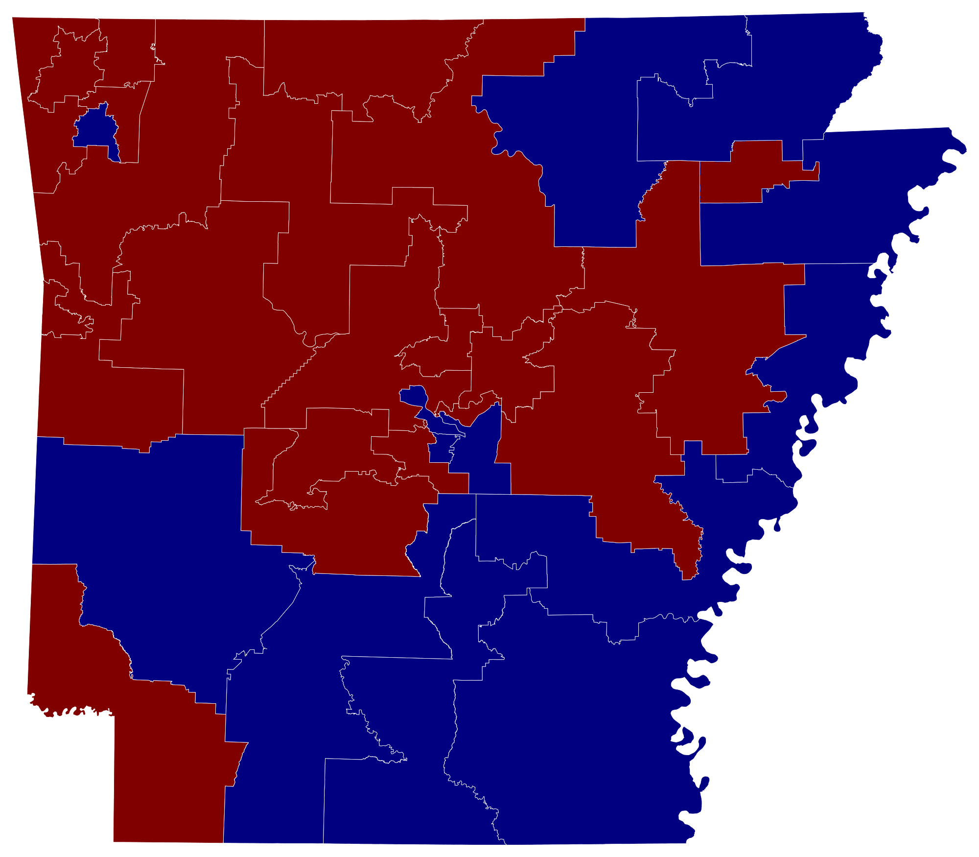 Map of the partisan makeup of the Arkansas State Senate after the 2012 election. Updated as of 1/23/2014.